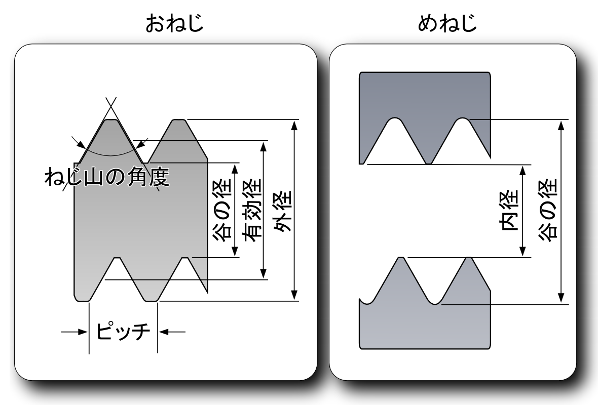 Screw (bolt) 05 J